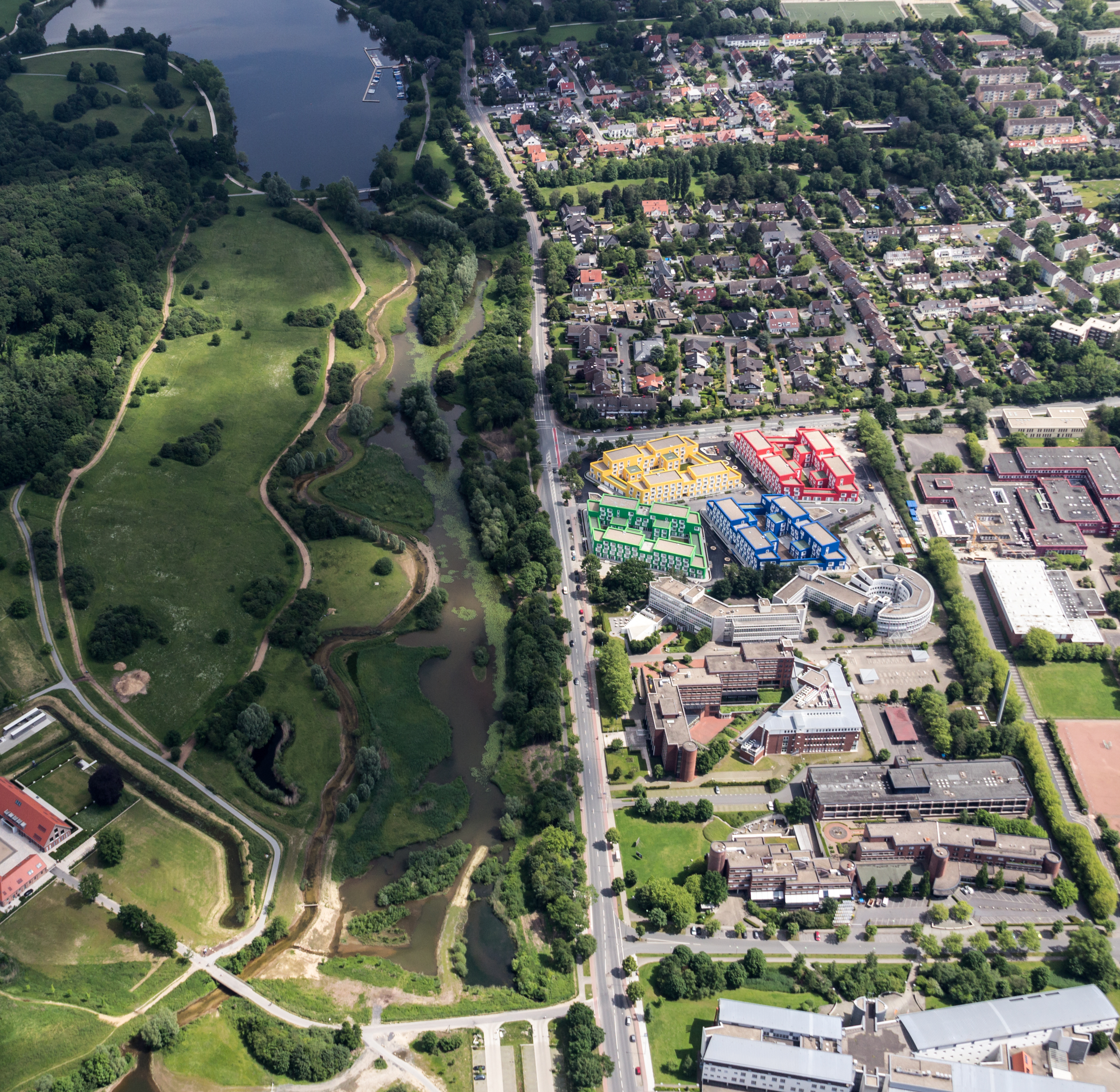 Aasee, Münster, North Rhine-Westphalia, Germany